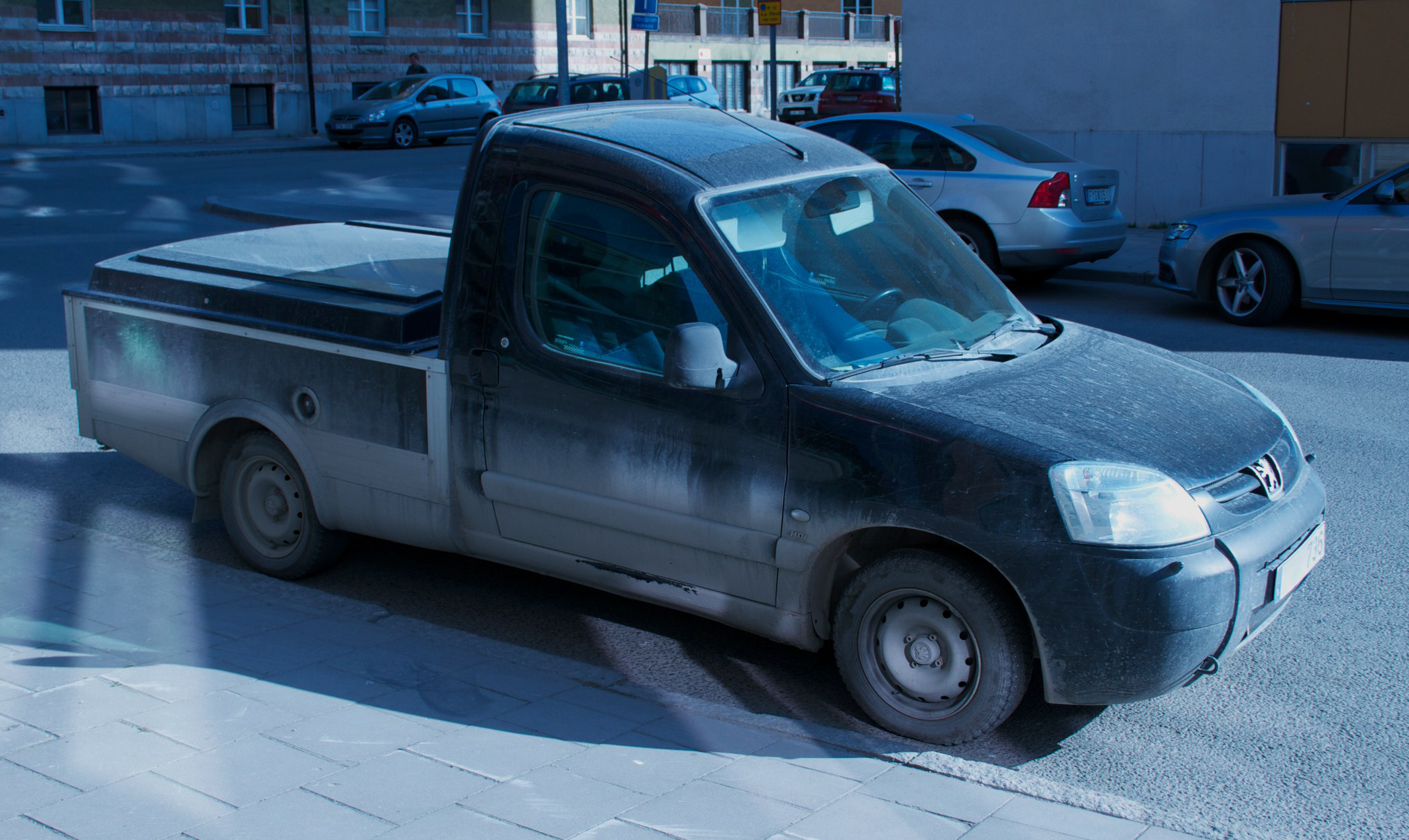 2006 Peugeot Partner 2.0 HDi (90hp) pickup truck in Solna, Sweden. This is presumably a custom effort. Length of loading area is 1960mm.